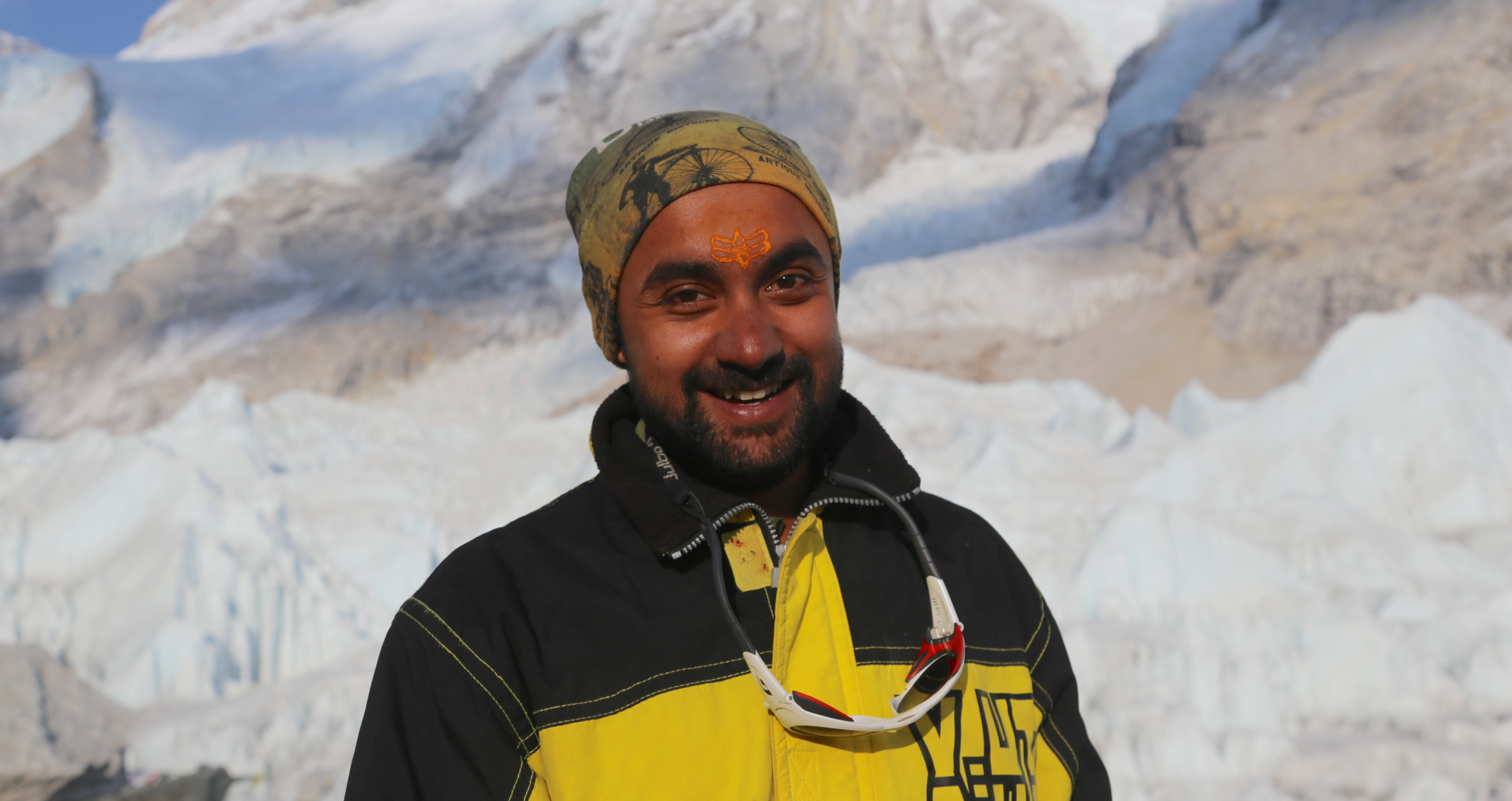 The first person in the world to recite the national anthem of his country at the highest peak of Mount Everest